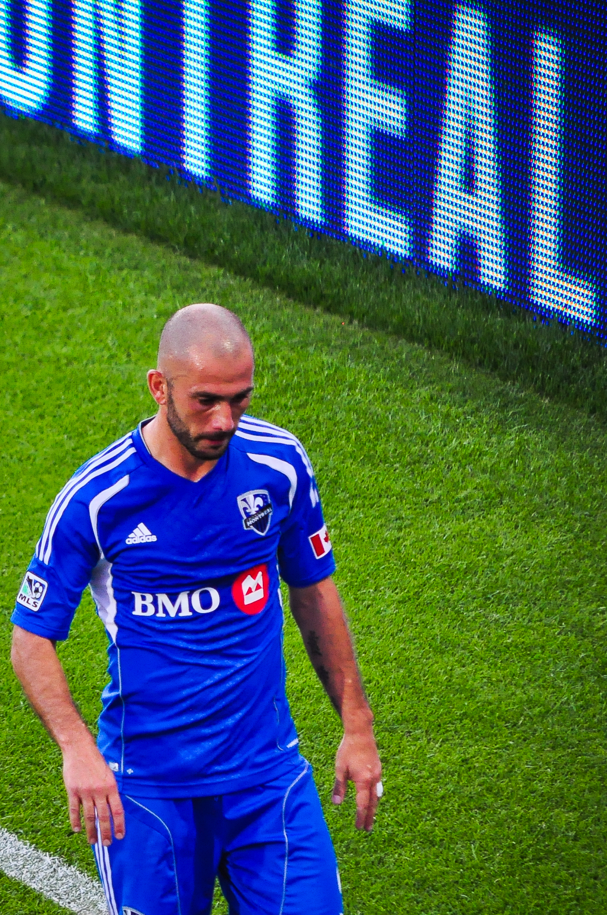 Marco Di Vaio of Montreal.